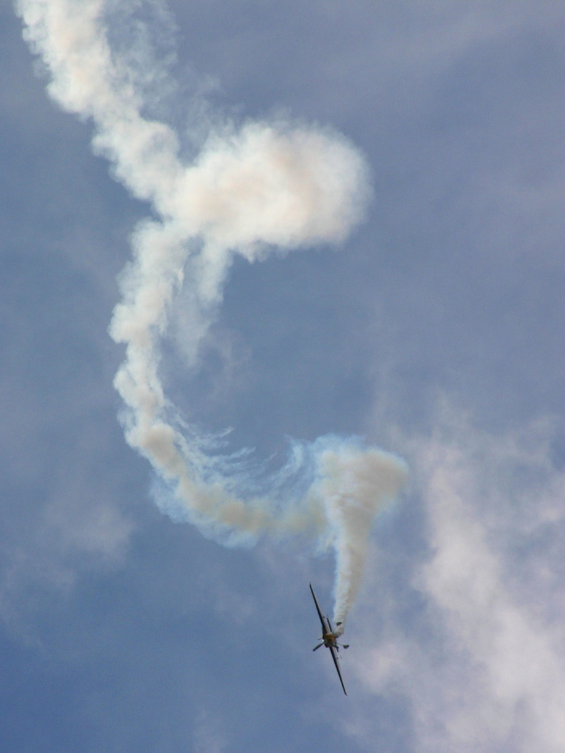 Hannes Arch piloting a Zivko Edge 540 V3 at the airshow in Kirchheim, Upper Austria